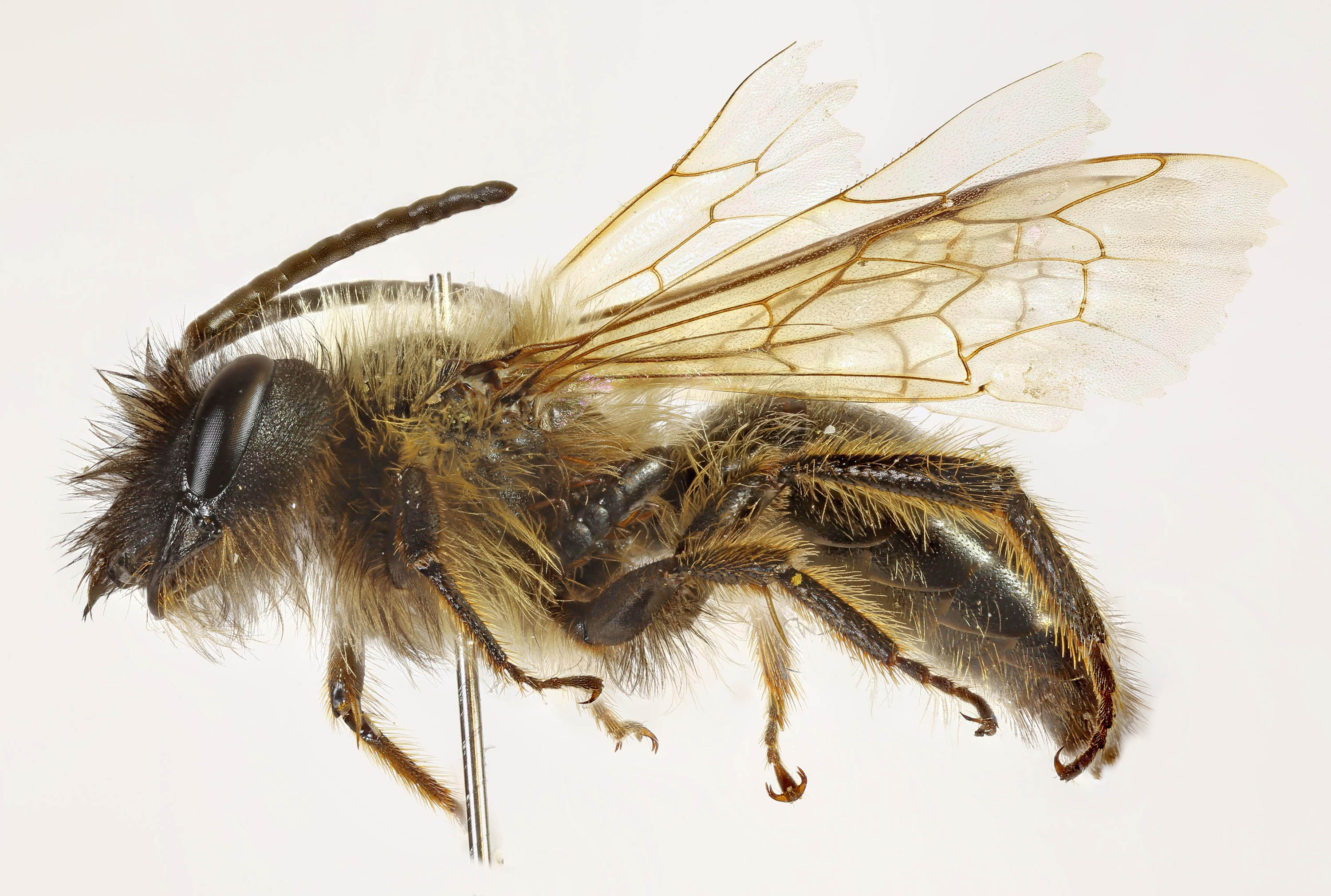 Andrena nigroaenea with Meloe violaceus, Nant Gwrtheyrn, North Wales, May 2016